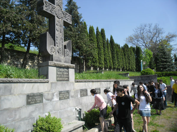 Noyemberyan, Artsakh War memorial